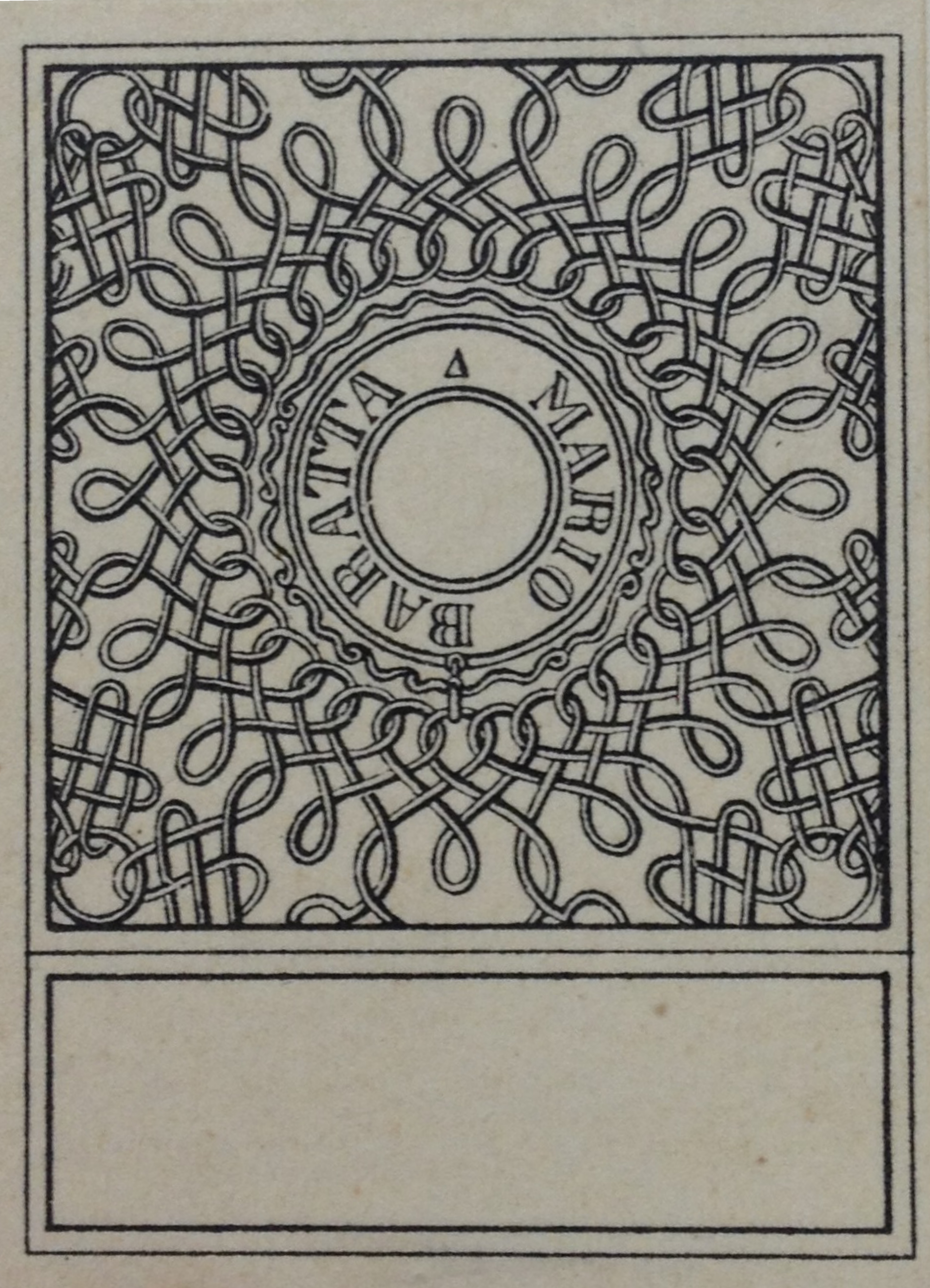 Mario Baratta bookplate type 2